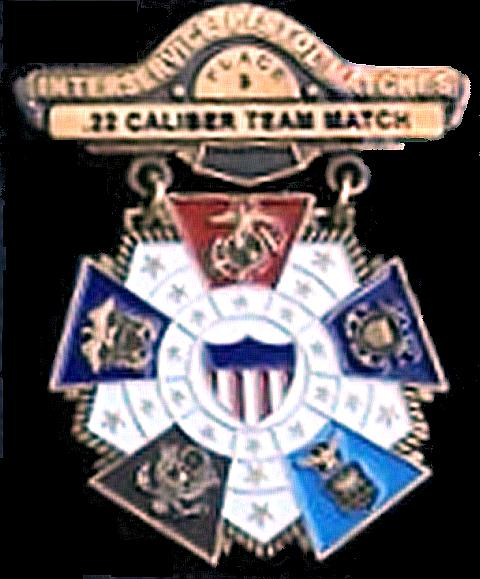 Photograph of the U.S. Army's Interservice Competition Badge as viewed through a display case. This badge was awarded at the Interservice Pistol Matches for 3rd place at the .22 Caliber Team Match.